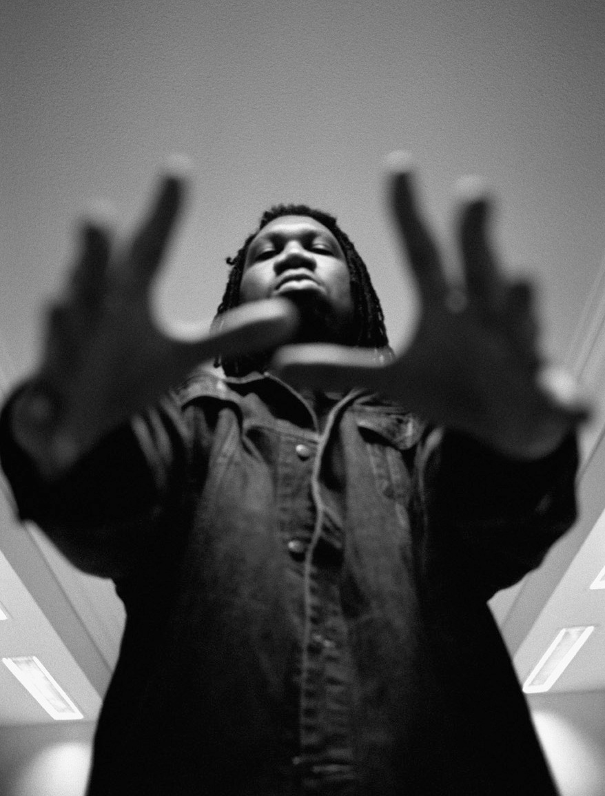 california 2001